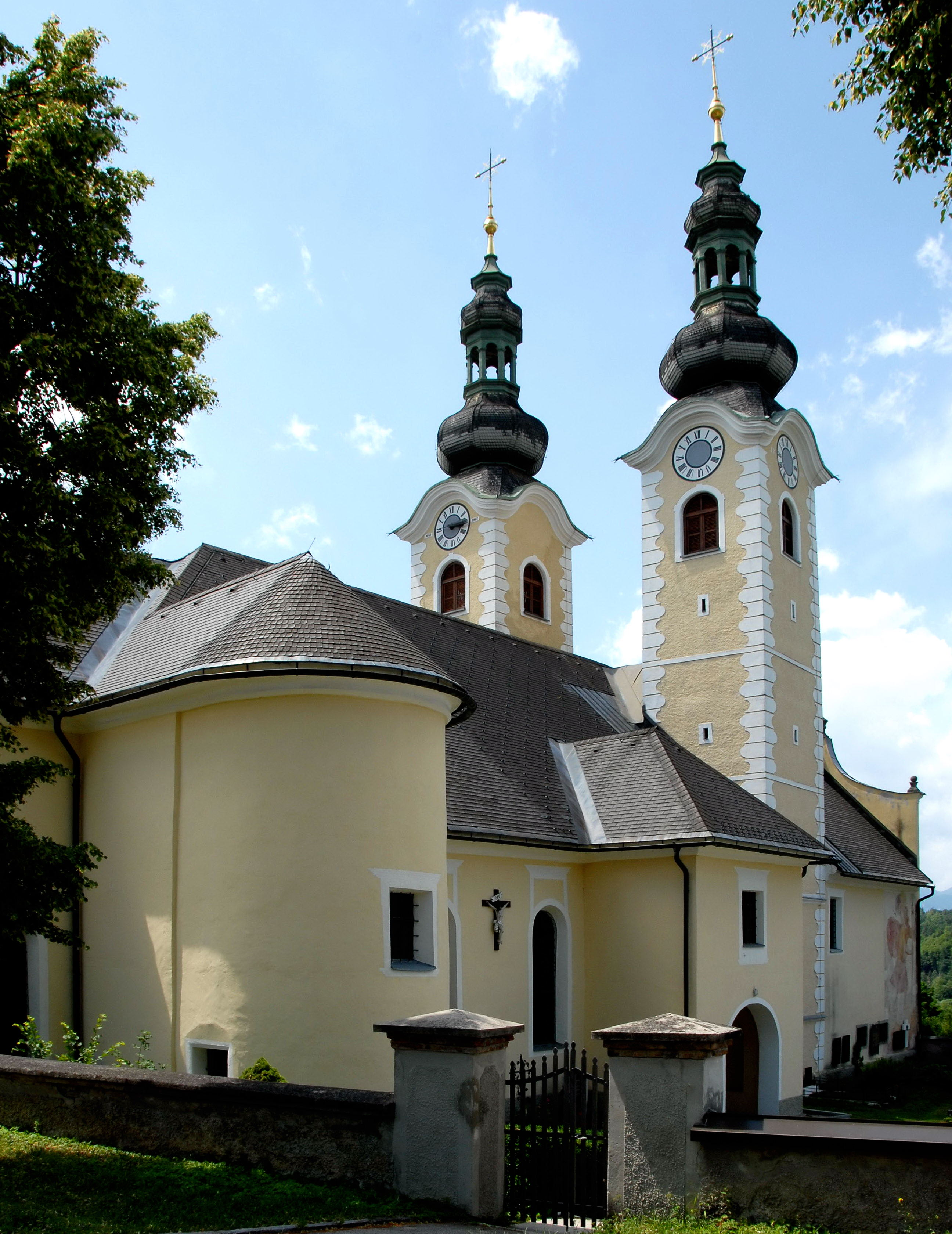 Pilgrimage and parish church the Assumption on Kirchenstrasse #61, municipality Maria Rain, district Klagenfurt Land, Carinthia, Austria, European Union